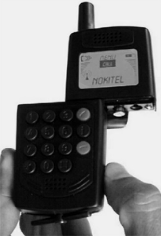 Four-barreled cell phone gun.